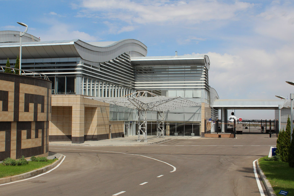 Airport Manas 2, Bishkek